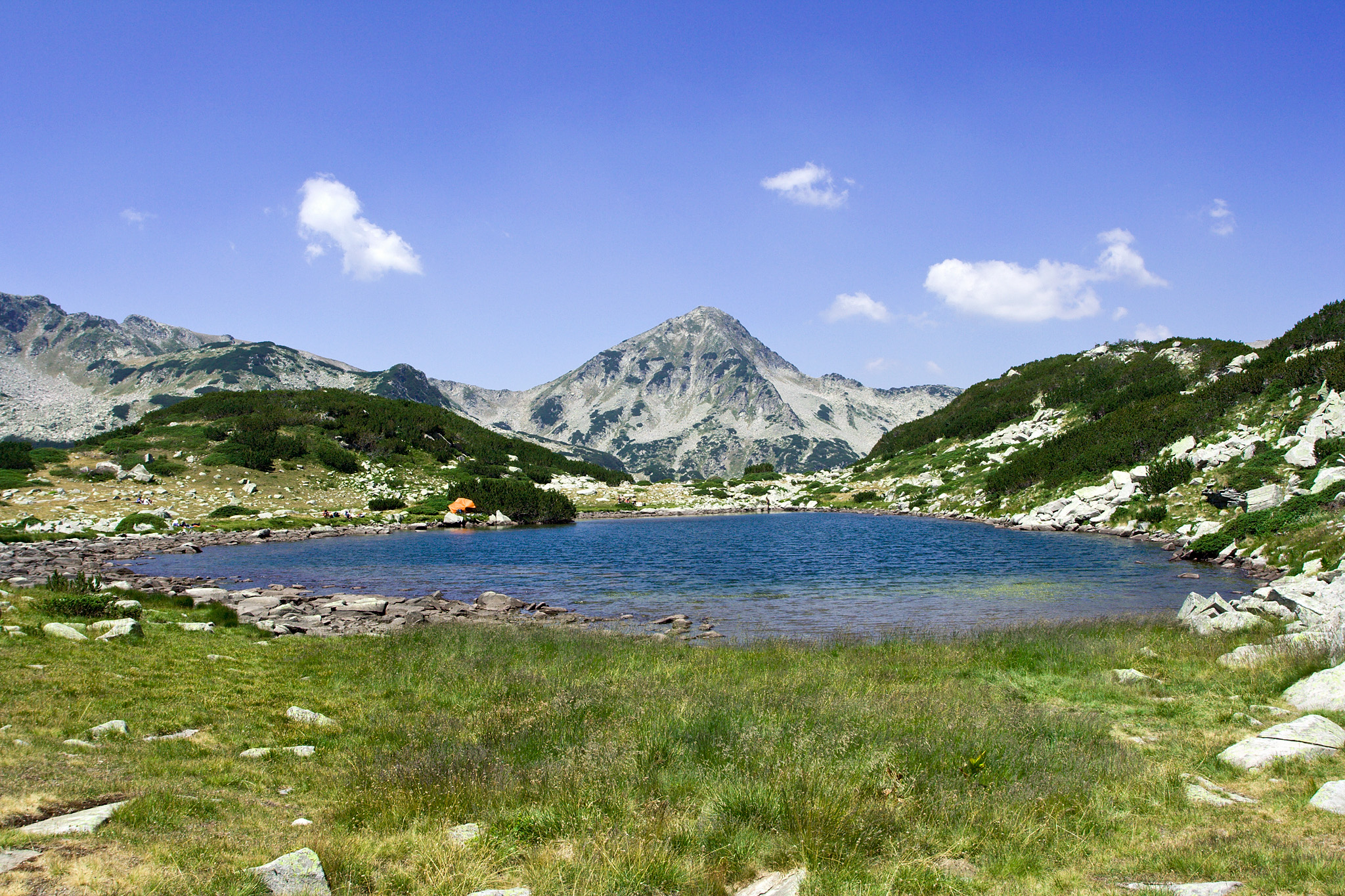 Muratov peak as seen from Zhabeskoto lake, Pirin mountain, Bulgaria